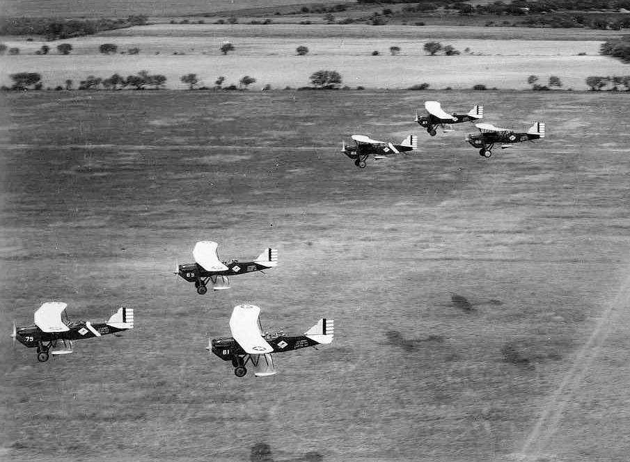 10th School Group Curtiss AT-4 Hawk Trainers in formation. Kelly Field, Texas